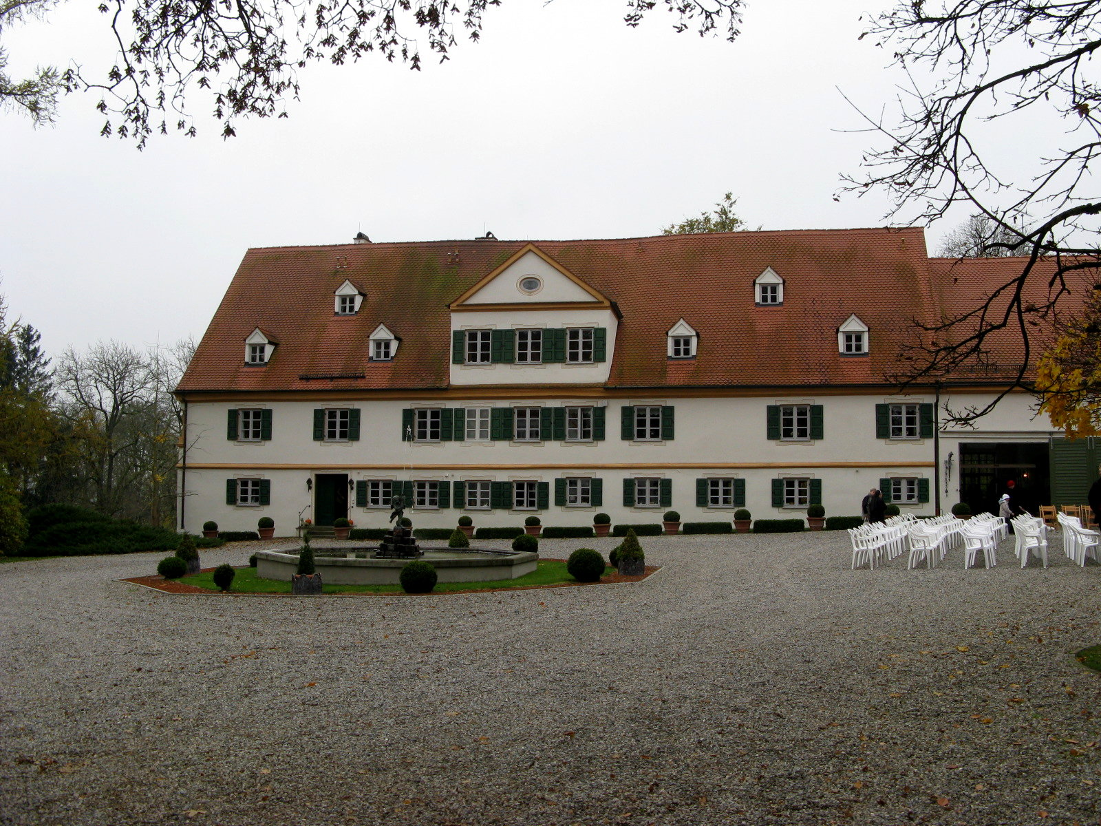 House in Bannacker, Augsburg, Bavaria